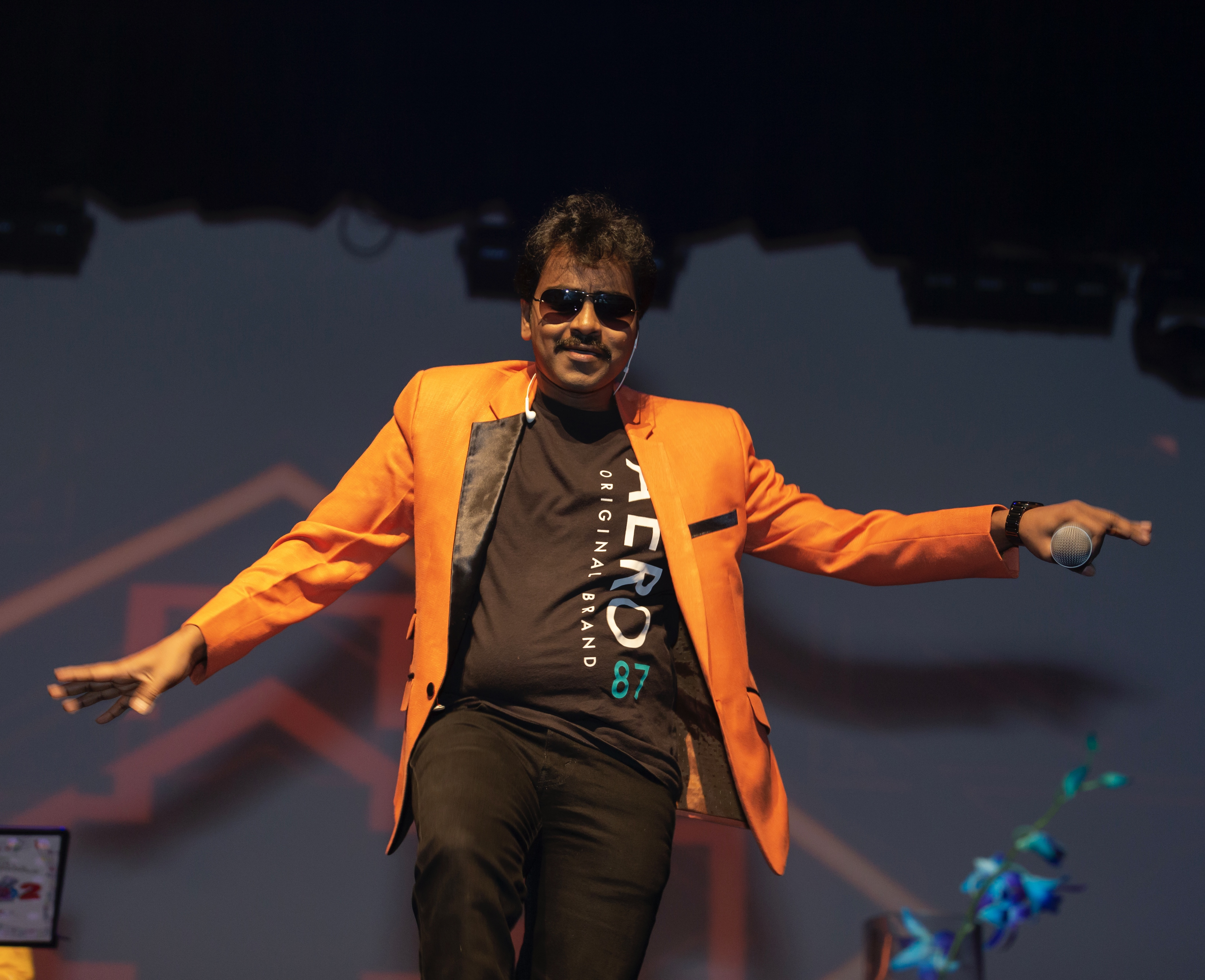 Singer Mallikarjun performing in Australia